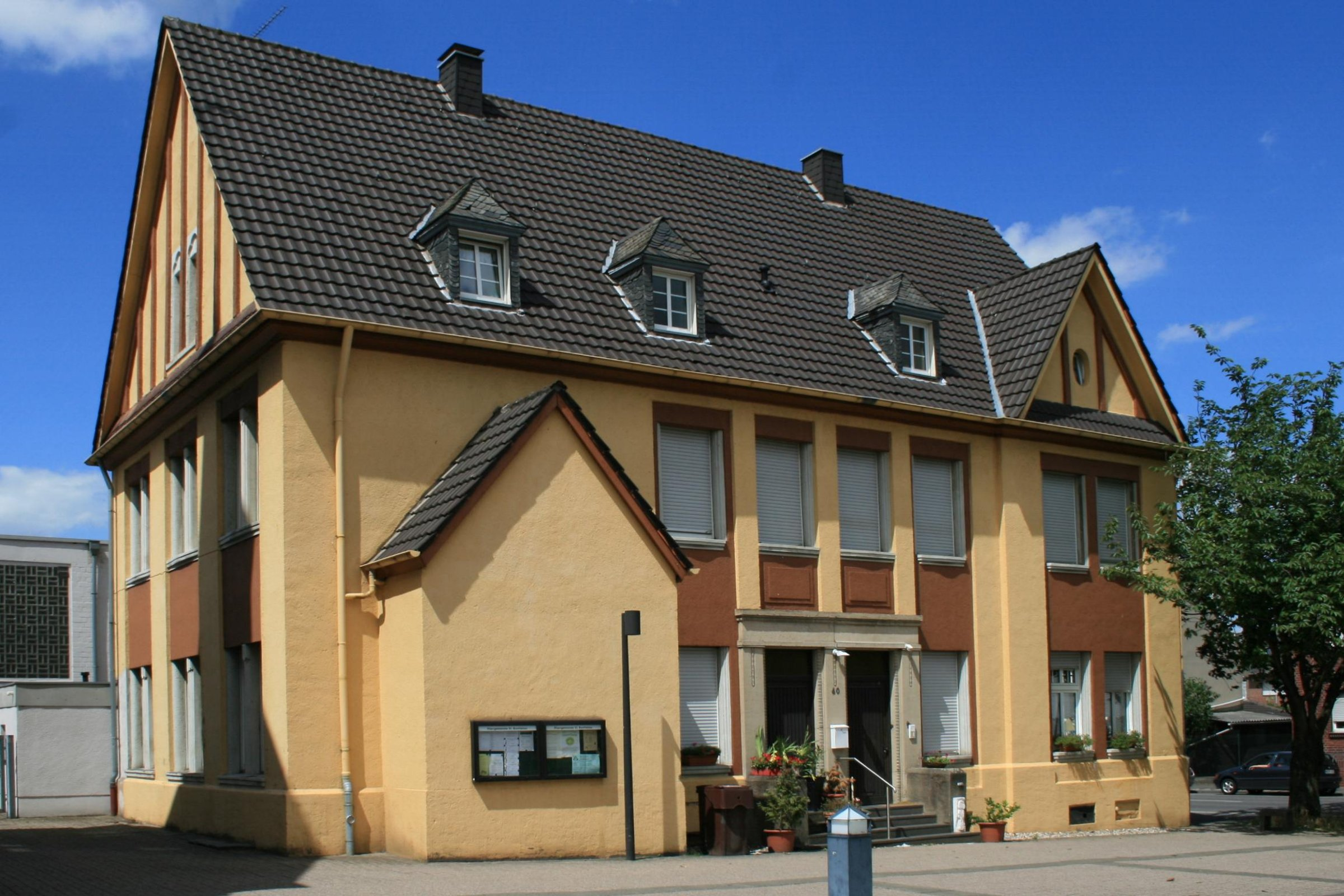 Cultural heritage monument No. H 073 in Mönchengladbach